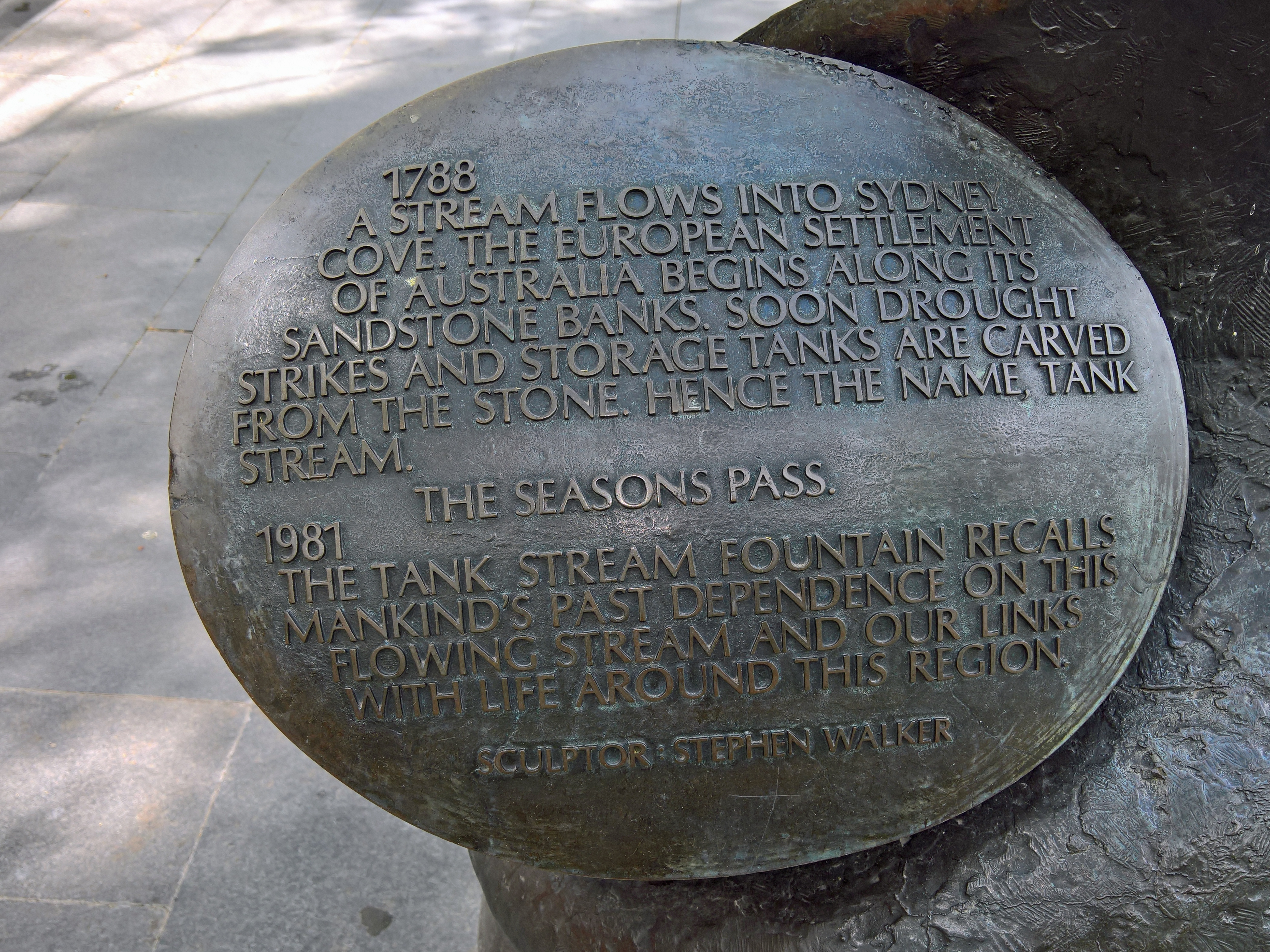 A fountain commemorating the Tank Stream which provided water for the first European settlers in Australia. The fountain is situated in the locality where the Tank Stream flowed into Sydney Cove at what is now Circular Quay.